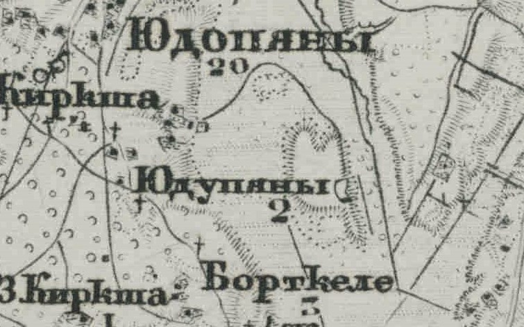 (Alkas village. 1872)